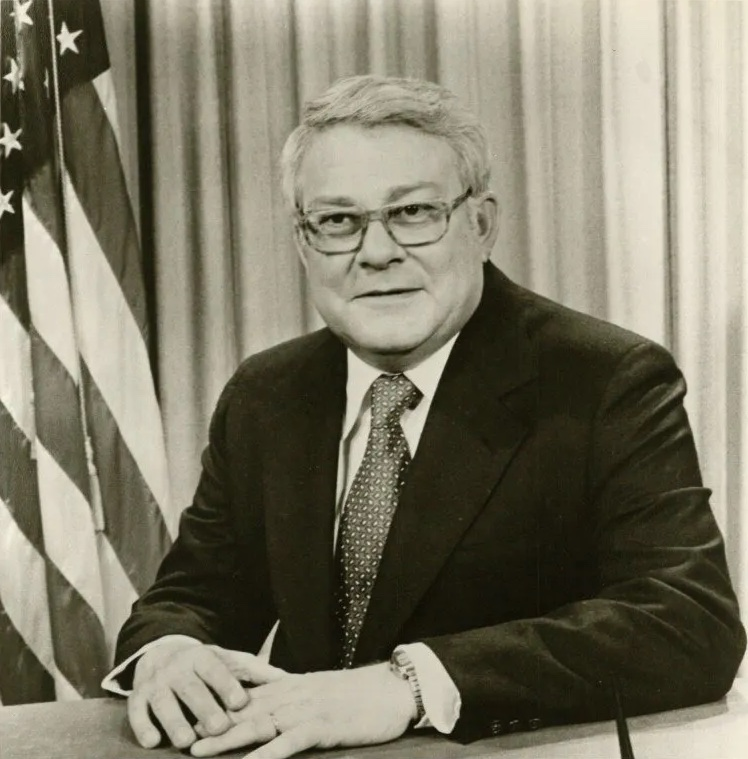 The source of this file is the United States Senate Historical Office. I got permission (to post this photo on Wikipedia) over the phone, in person, from Ms. Heather Moore, the United States Senate Photo Historian. Ms. Moore can be reached at 202-224-6900. The URL contact page for Ms. Moore is Ms. Moore said that the photo is in the public domain, but that credit for the photo does need to be posted as "credited to the U.S. Senate Historical Office." The URL where this photo was retrieved from is